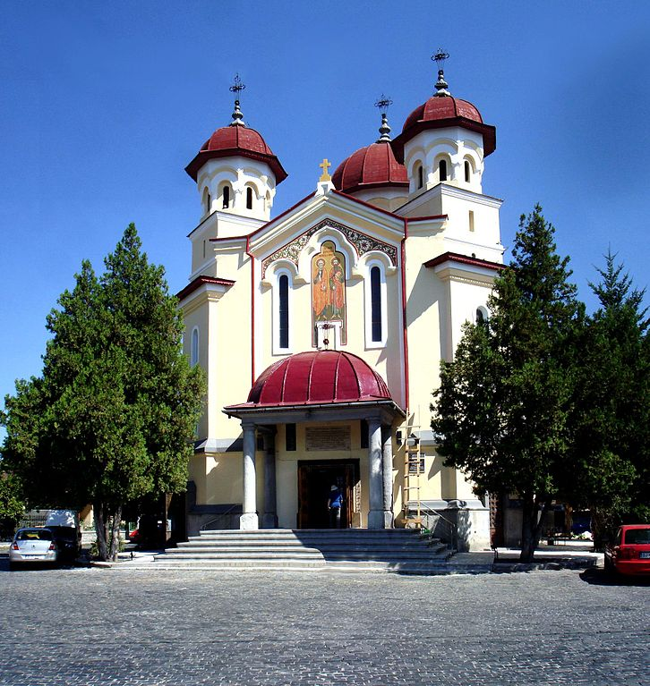 Church of the Holy Apostols Peter and Paul in Targu Jiu